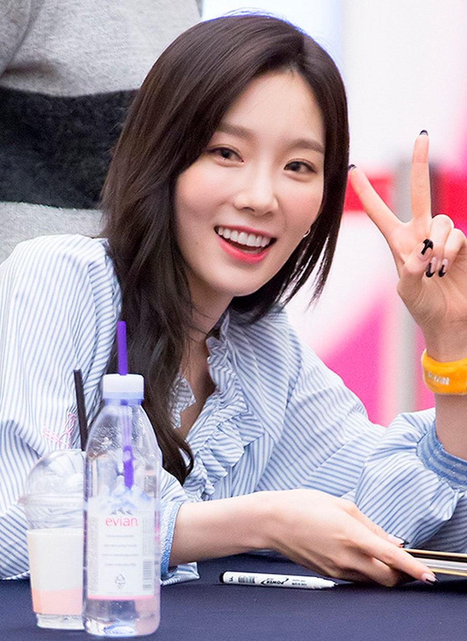 Taeyeon at fansigning on March 17, 2017.